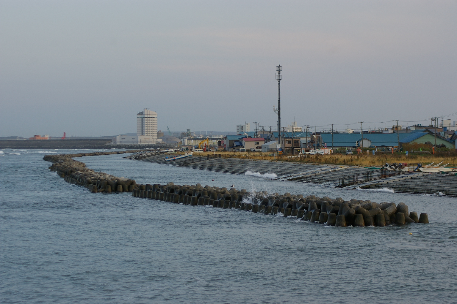 An example of the seashore protection which used the tetrapod.